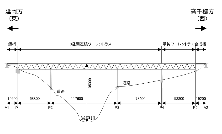 Skelton diagram of Takachiho bridge